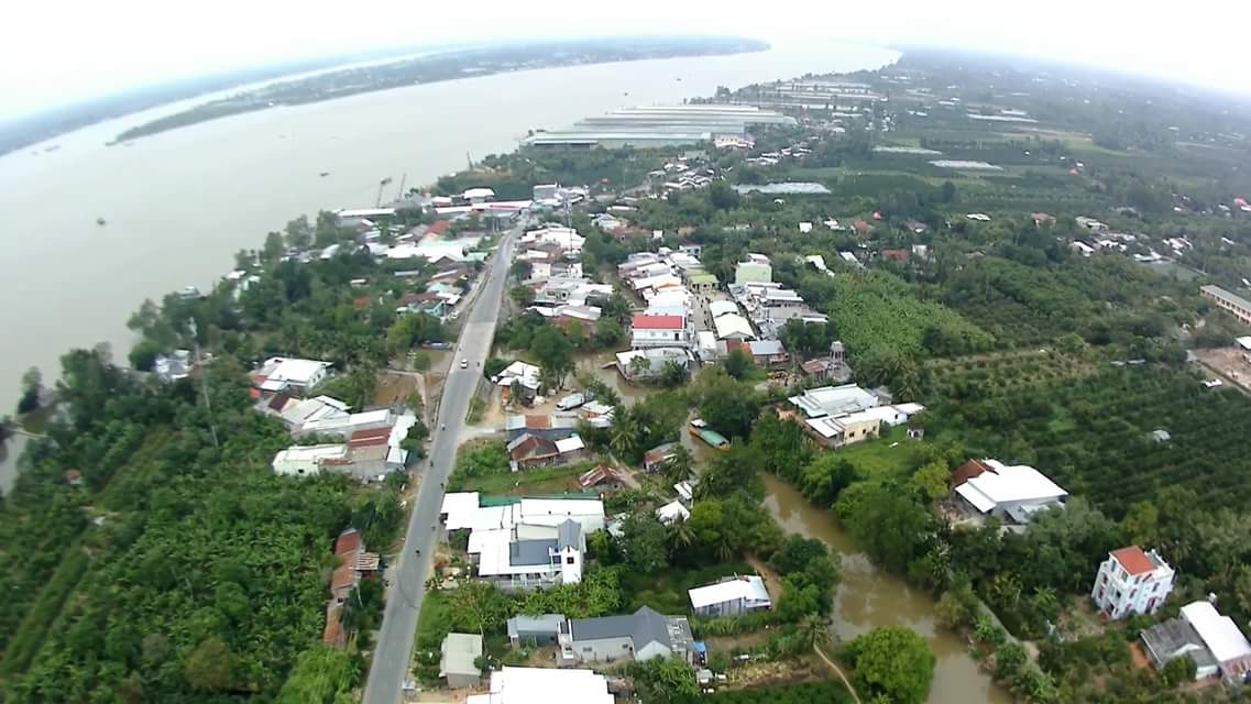 Cai Dua market, Tân Hòa commune, Lai Vung district, Đồng Tháp province